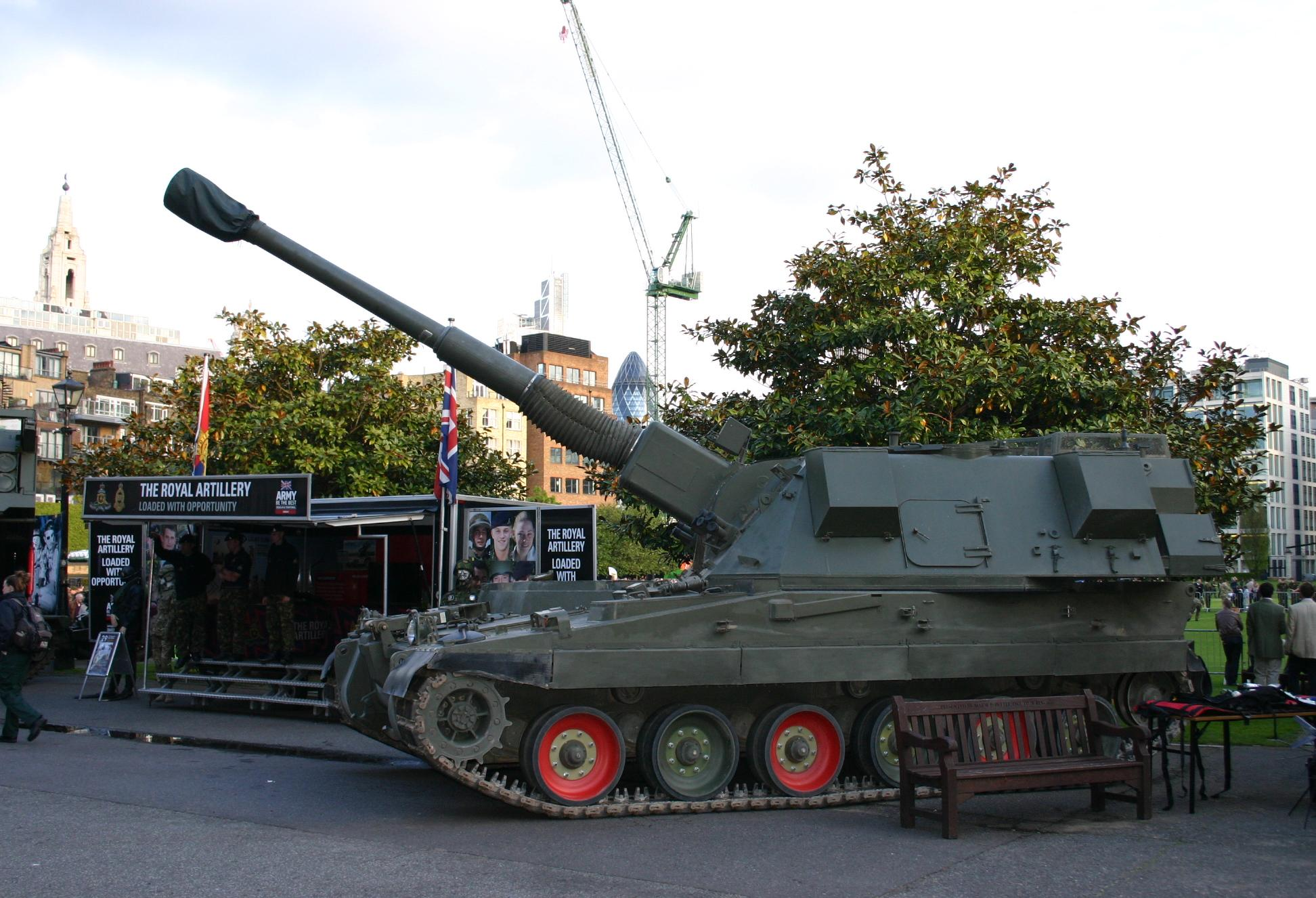 Honourable Artillery company open day